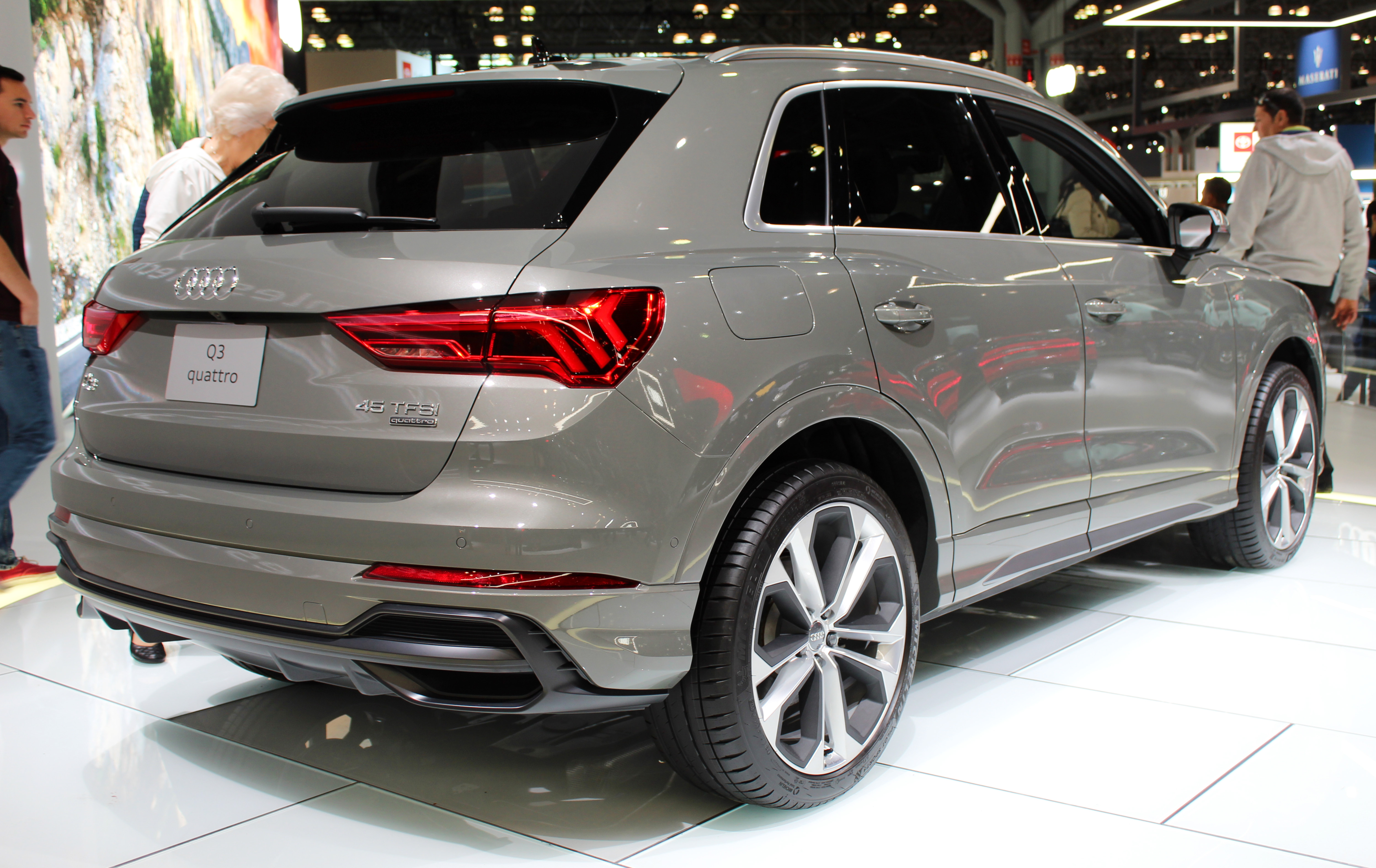 A 2019 Audi Q3 quattro S-Line photographed during the 2019 New York International Auto Show, in Hudson Yards, Manhattan, NYC